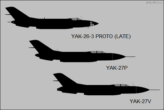 Side-view silhouettes of the Yakovlev Yak-26-3, Yak-27P and Yak-27V